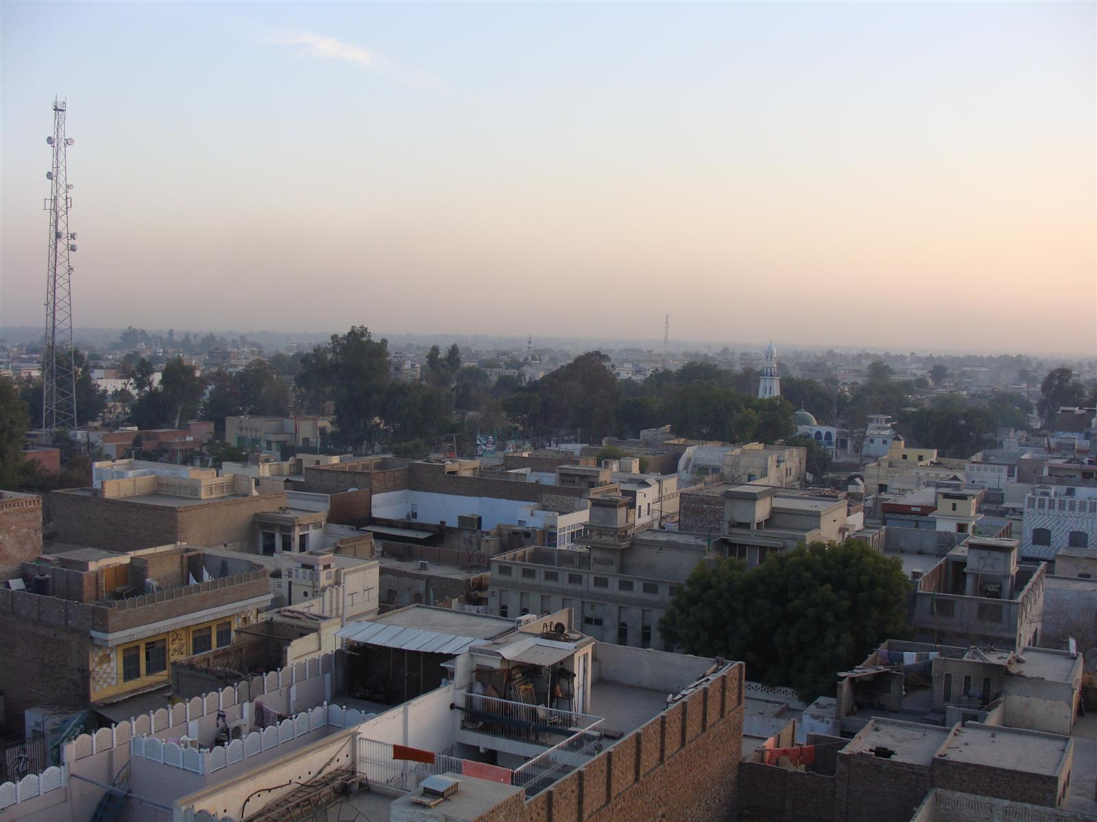 Aerial View of Haroonabad City from a tower.